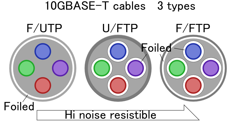 Sections of 3 type of network cables.